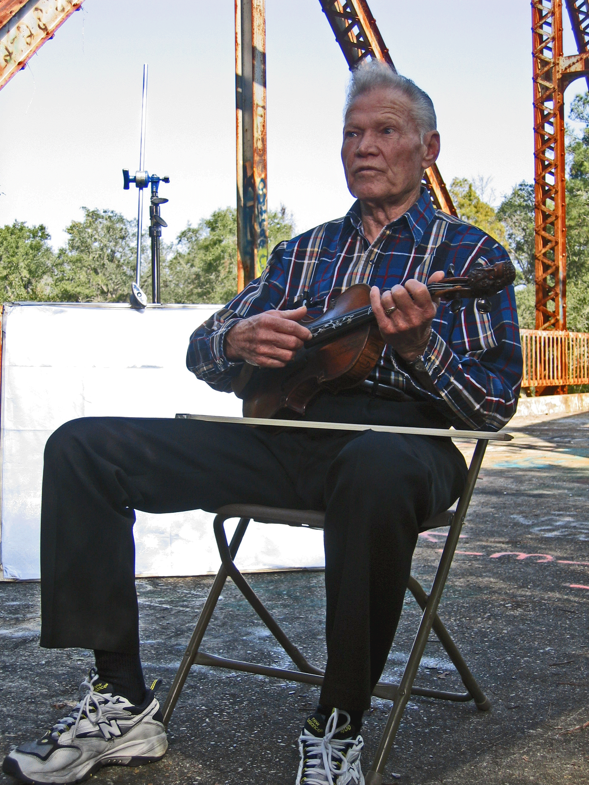 Vassar is being interviewed for a documentary on Magnolia Music , producers of MagnoliaFest and the Suwannee SpringFest in Live Oak FL. This summer, MagMusic is venturing up to Bean Blossom, Indiana, for a new festival: MagnoliaFest Midwest , July 22-24, 2005.